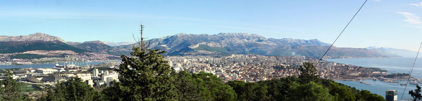 Panaroma view of Split and surroundings from the top of Marjan hill, Croatia